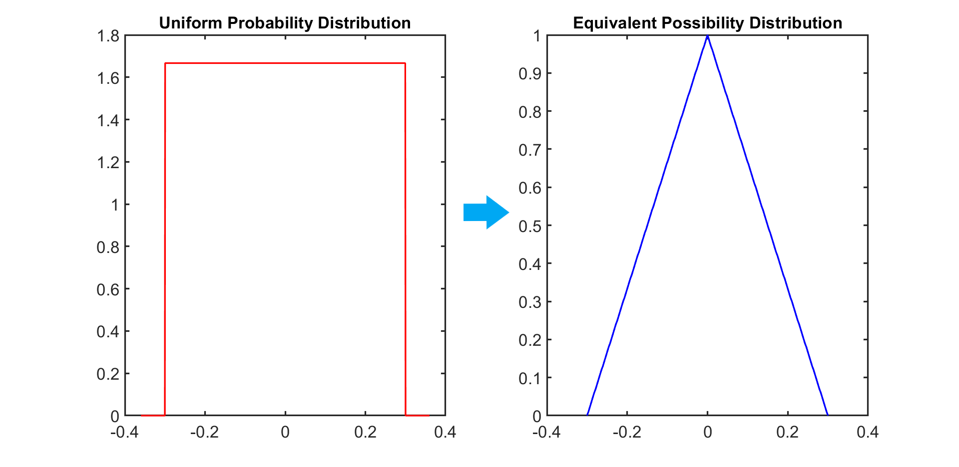 A uniform probability distribution and its equivalent distribution in possibility domain done using probability possibility transformation.